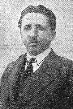 Jose Maria Lamamie de Clairac around the year of 1930s